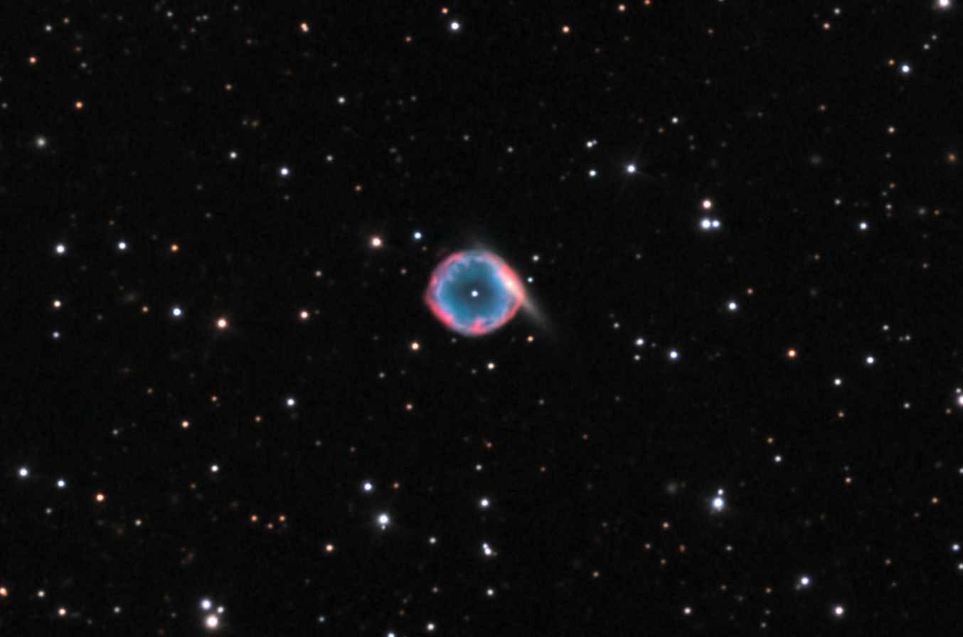 Abell 70 Picture Details: Optics 32-inch Schulman Telescope Camera SBIG STx 16803 CCD Camera Filters AstroDon GenII Dates May 2013 Location Mount Lemmon SkyCenter Exposure (L)RGB = 3:3:3 Hours Acquisition TheSky (Software Bisque), Maxim DL/CCD (Cyanogen), ACP (DC3 Dreams) Processing CCDStack (CCDWare), Maxim DL (Cyanogen), Photoshop CS5 (Adobe), PixInsight credit line and Copyright Adam Block/Mount Lemmon SkyCenter/